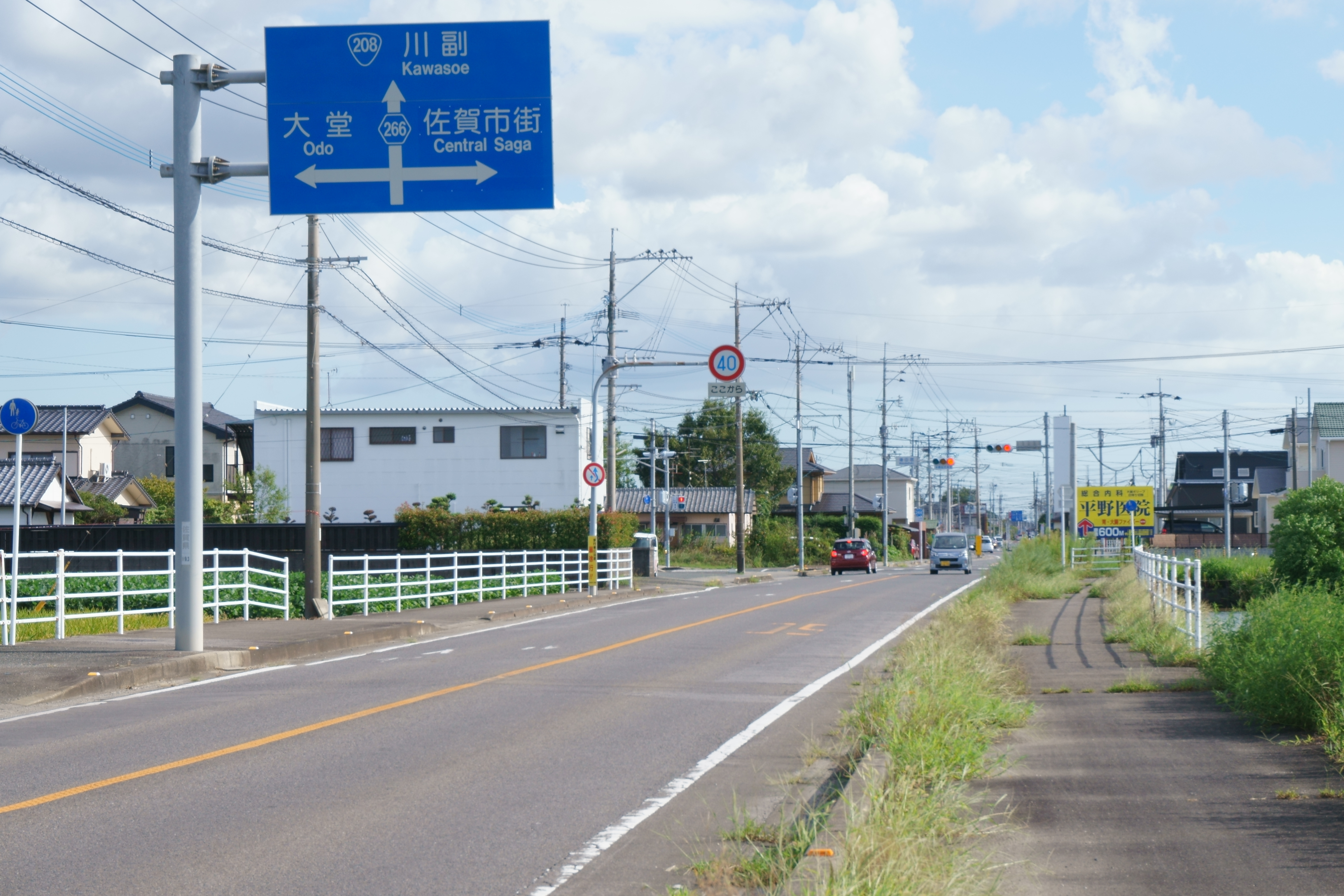 Saga prefectural road No.266 near Masudashuku intersection, in Kitakawasoe-machi Mitsunori, Saga city.